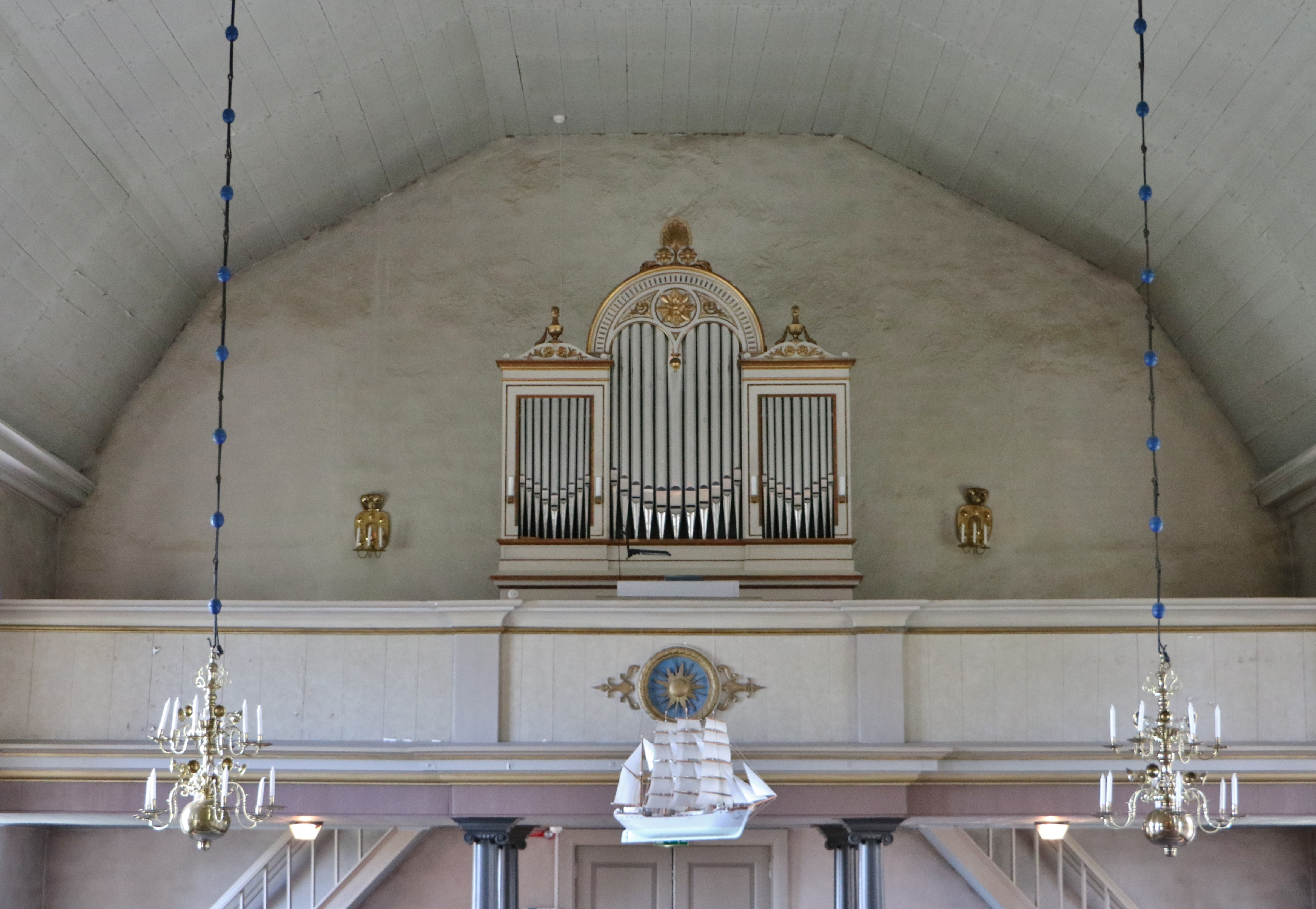 Smedby Church.The organ